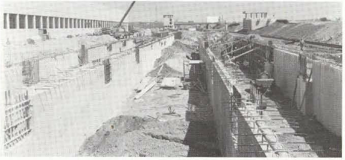 Grade beams are constructed for the platforms of Wellington station around 1974